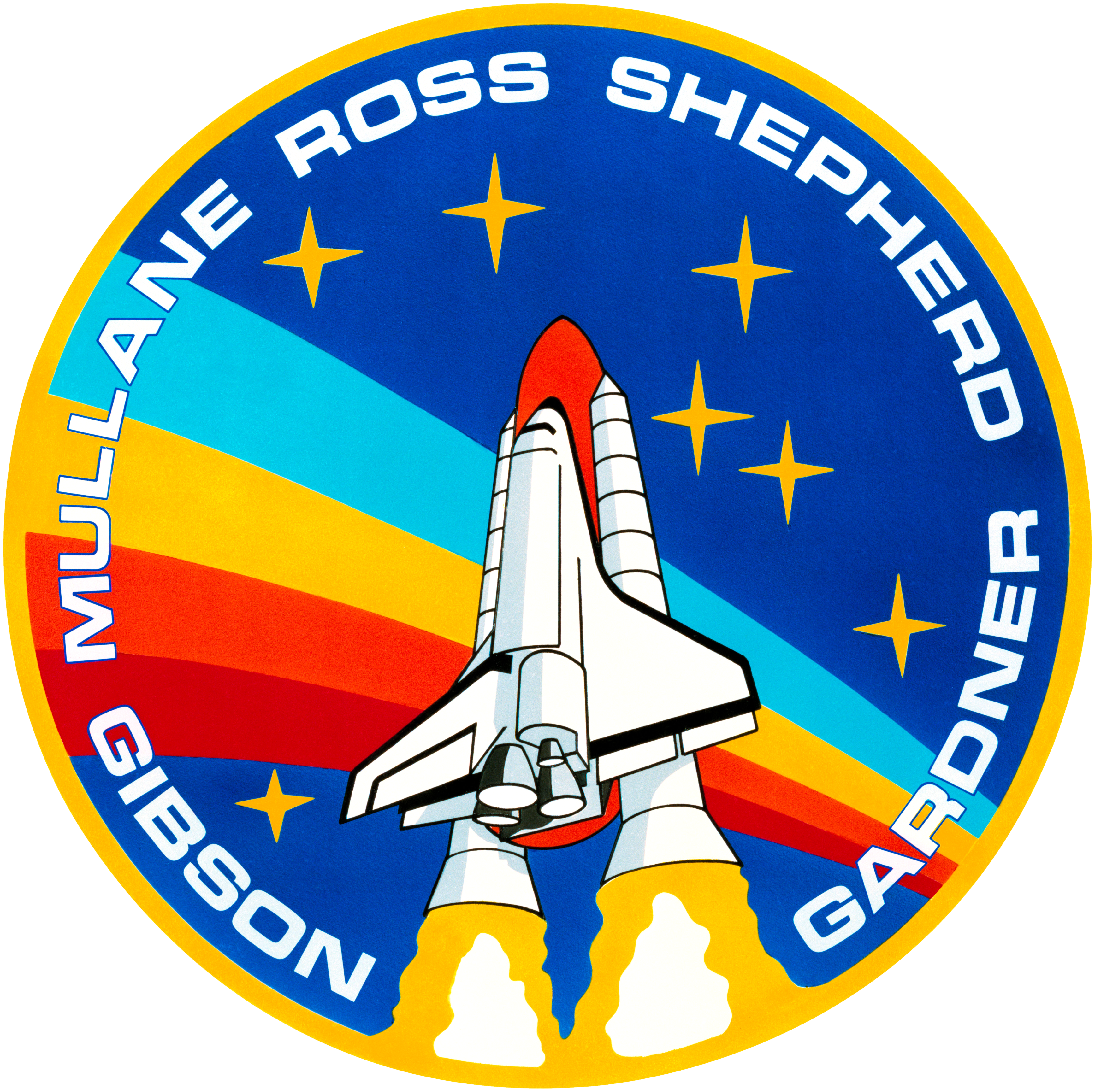 STS-27 Mission Insignia The patch depicts the Space Shuttle lifting off against the multi-colored backdrop of a rainbow, symbolizing the triumphal return to flight of our nation's manned space program. The design also commemorates the memory of the crew of Challenger mission STS-51-L, represented by the seven stars. The names of the flight crewmembers of STS-27 are located along the border of the patch.